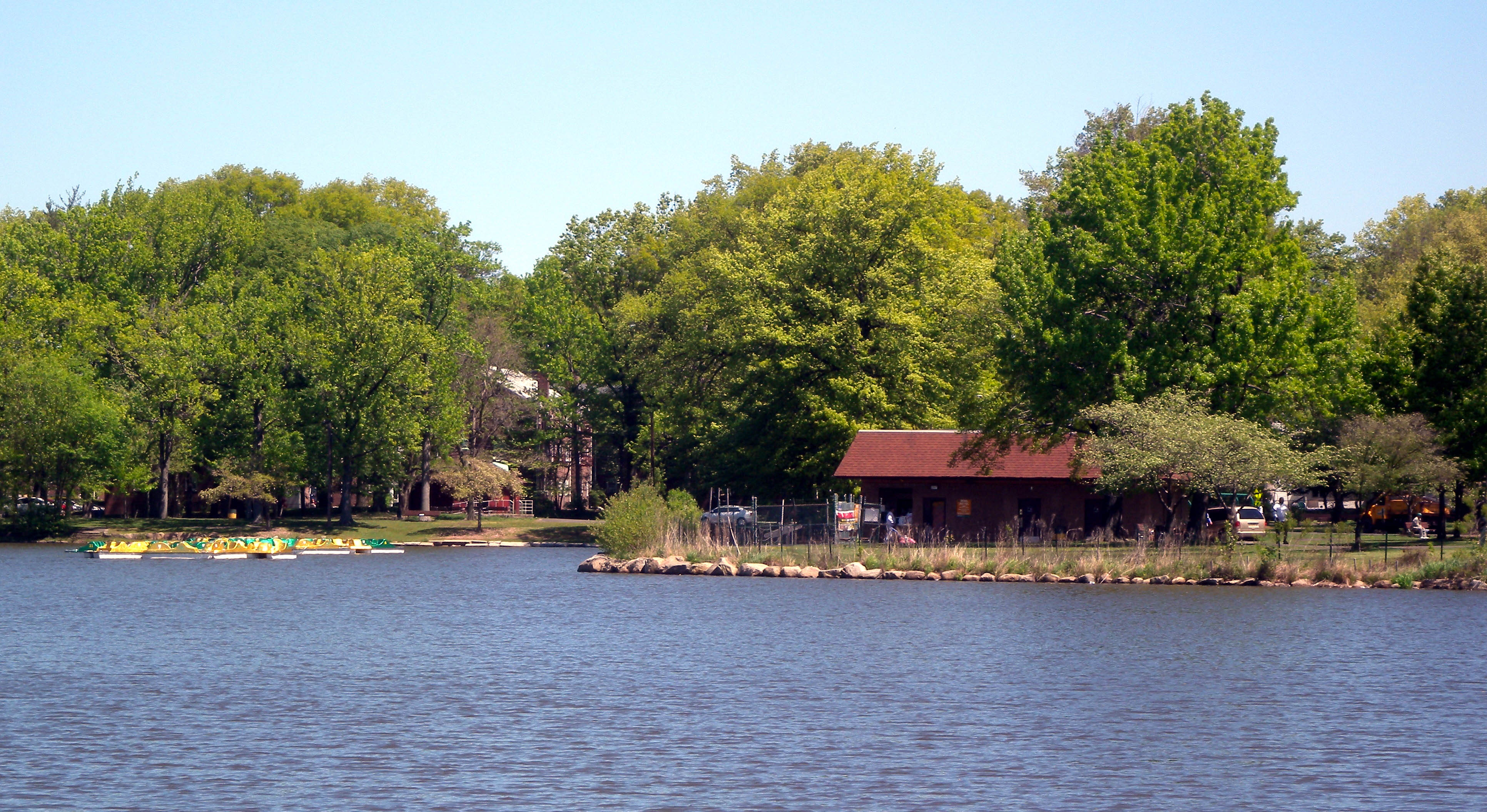 Looking east across lake at Warinanco Park boathouse on a sunny midday.